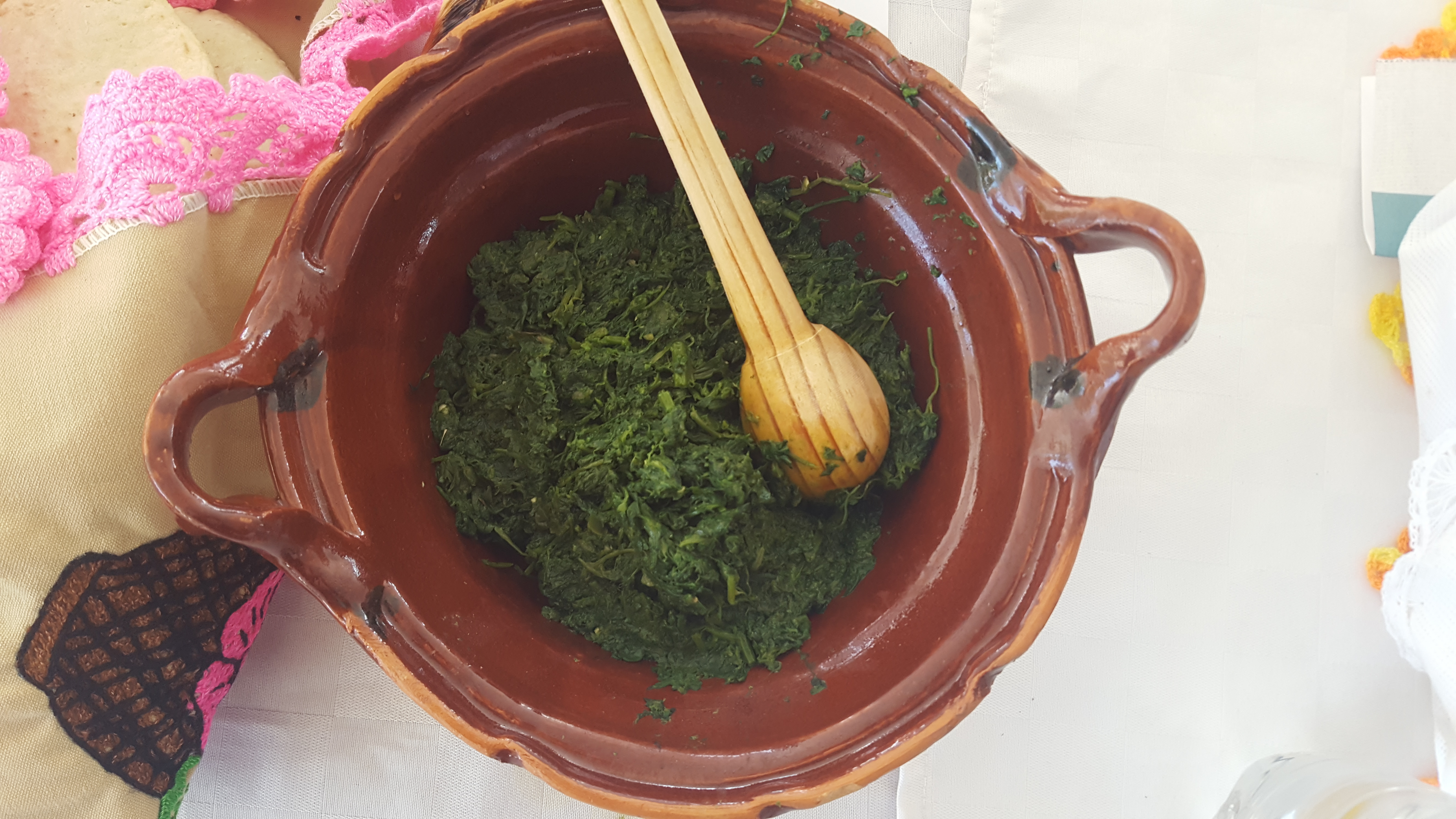 Quelites, a wid weed, served on a clay casserole, found at the XXXVIII Gastronomical fair of Santiago de Anaya, in the state of Hidalgo, Mexico.